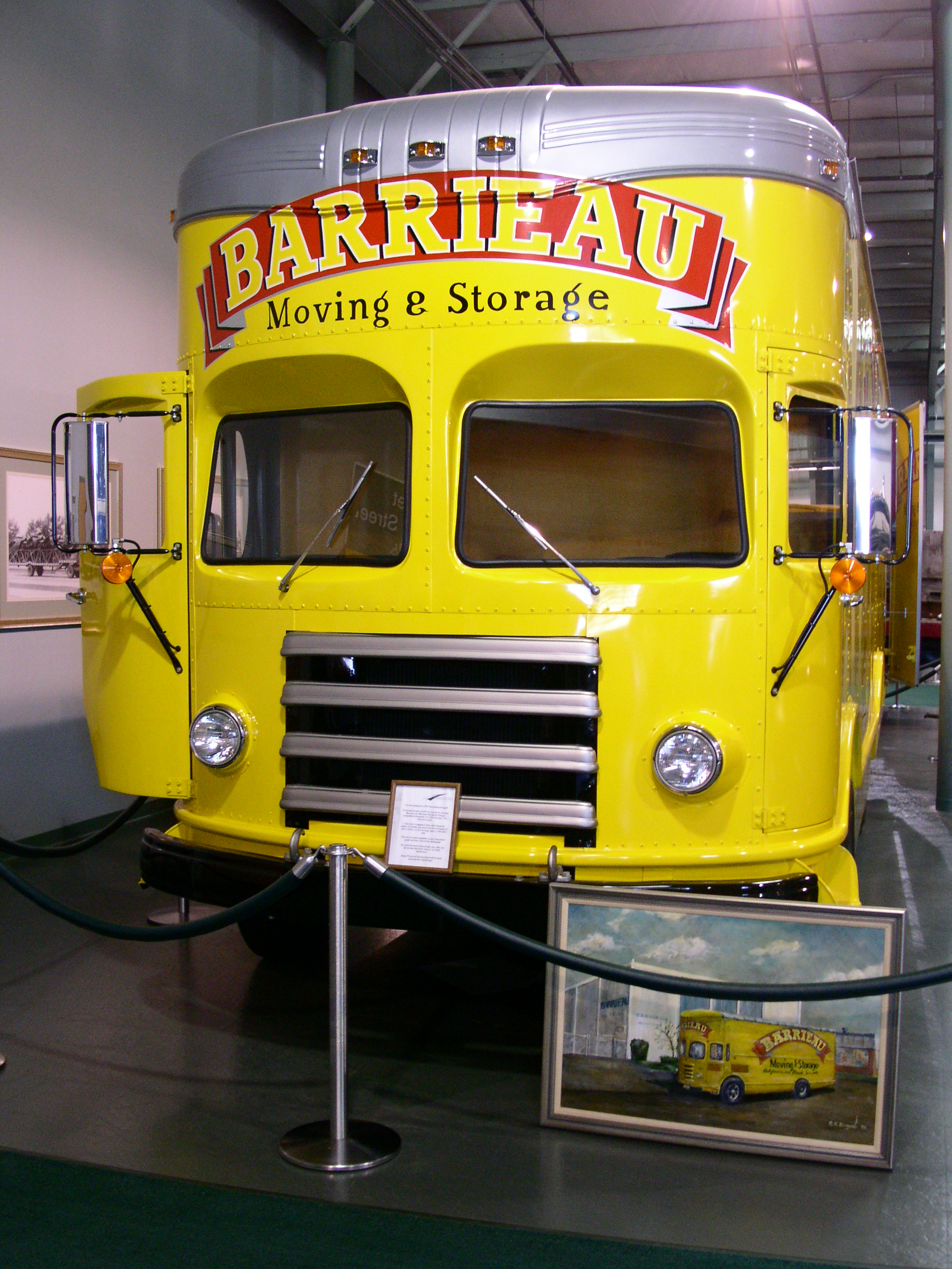 1953 international fageol moving van. Purchased in June 1953 by Gerard & Lorraine Barrieau, for Barrieau Moving and Storage located in Hartford, CT.